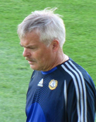 Michael Käld, head coach of Finland's women's national team during warmup of Finland - Northern Ireland friendly match.